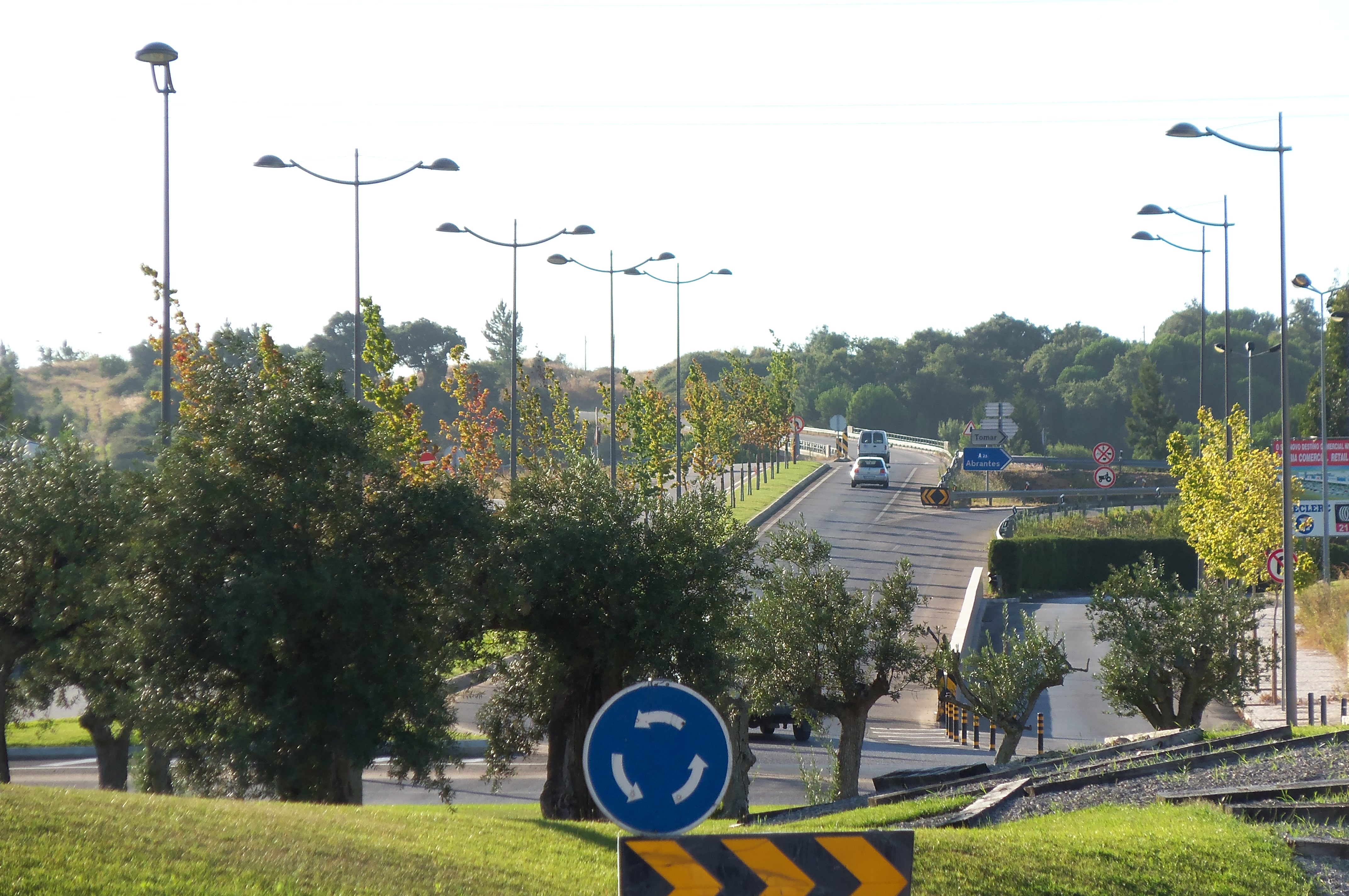 Partial view of the roundabout on the Avenue Villiers-Sur-Marne. Entrance to the motorway in the background.